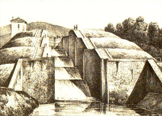 The Image was taken from the historical collection of the Imperial Canal of Aragon, being them the digitalised version of a engraving dated in 1833. La imagen forma parte de la colección histórica del Canal Imperial de Aragón, versión digitalizada de una serie de grabados de 1833 This work is in the public domain in its country of origin and other countries and areas where the copyright term is the author's life plus 70 years or less. You must also include a United States public domain tag to indicate why this work is in the public domain in the United States. Note that a few countries have copyright terms longer than 70 years: Mexico has 100 years, Jamaica has 95 years, Colombia has 80 years, and Guatemala and Samoa have 75 years. This image may not be in the public domain in these countries, which moreover do not implement the rule of the shorter term. Côte d'Ivoire has a general copyright term of 99 years and Honduras has 75 years, but they do implement the rule of the shorter term. Copyright may extend on works created by French who died for France in World War II (more information), Russians who served in the Eastern Front of World War II (known as the Great Patriotic War in Russia) and posthumously rehabilitated victims of Soviet repressions (more information). This file has been identified as being free of known restrictions under copyright law, including all related and neighboring rights.